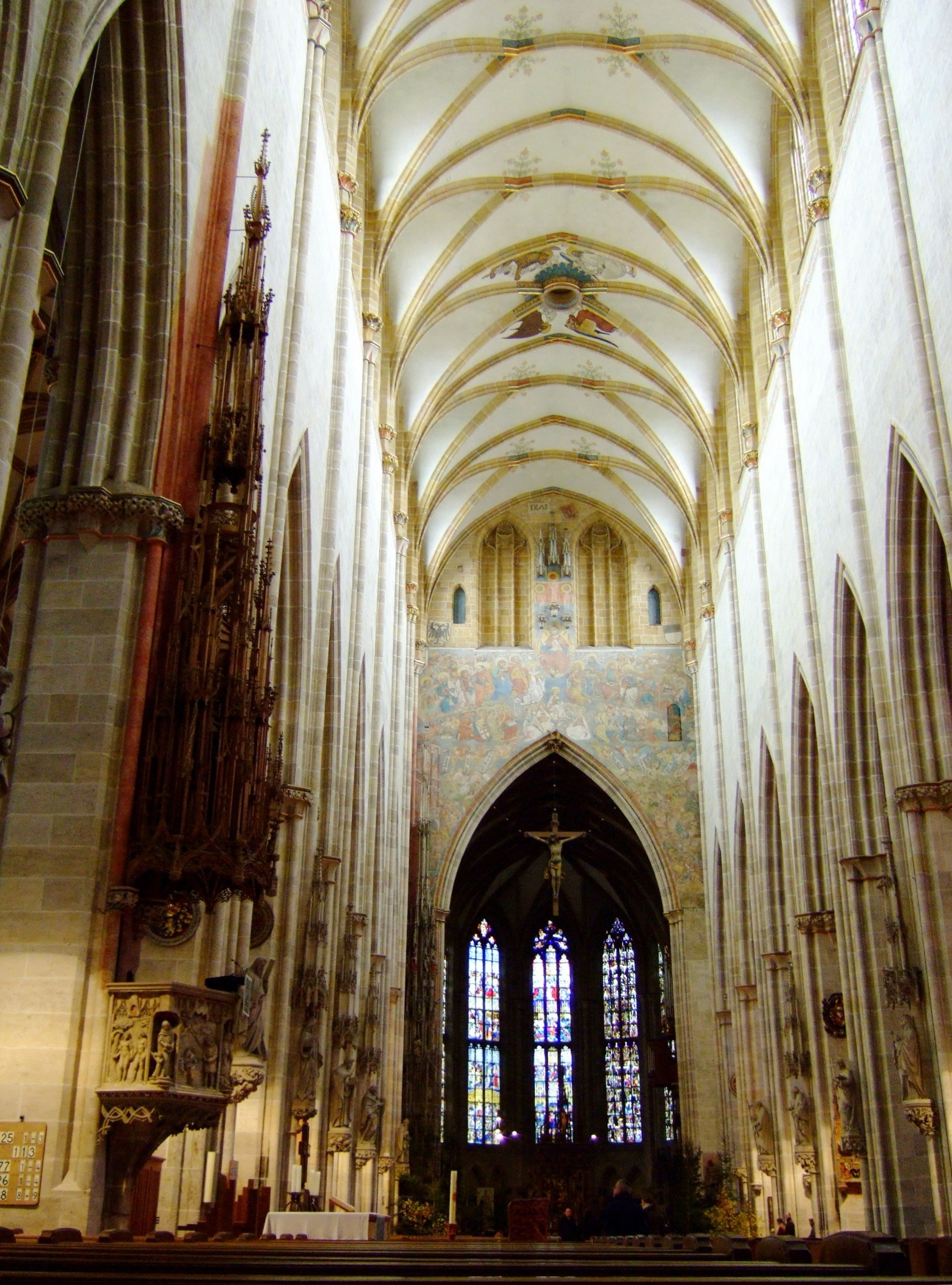 The Lutheran cathedral "Ulm Münster" of Ulm/Germany, looking towards the choir (it looks like a cathedral, but really it is a parish church, there has never been a bishop, neither a Roman Catholic bishop before the Reformation, nor a Lutheran bishop after the Reformation)